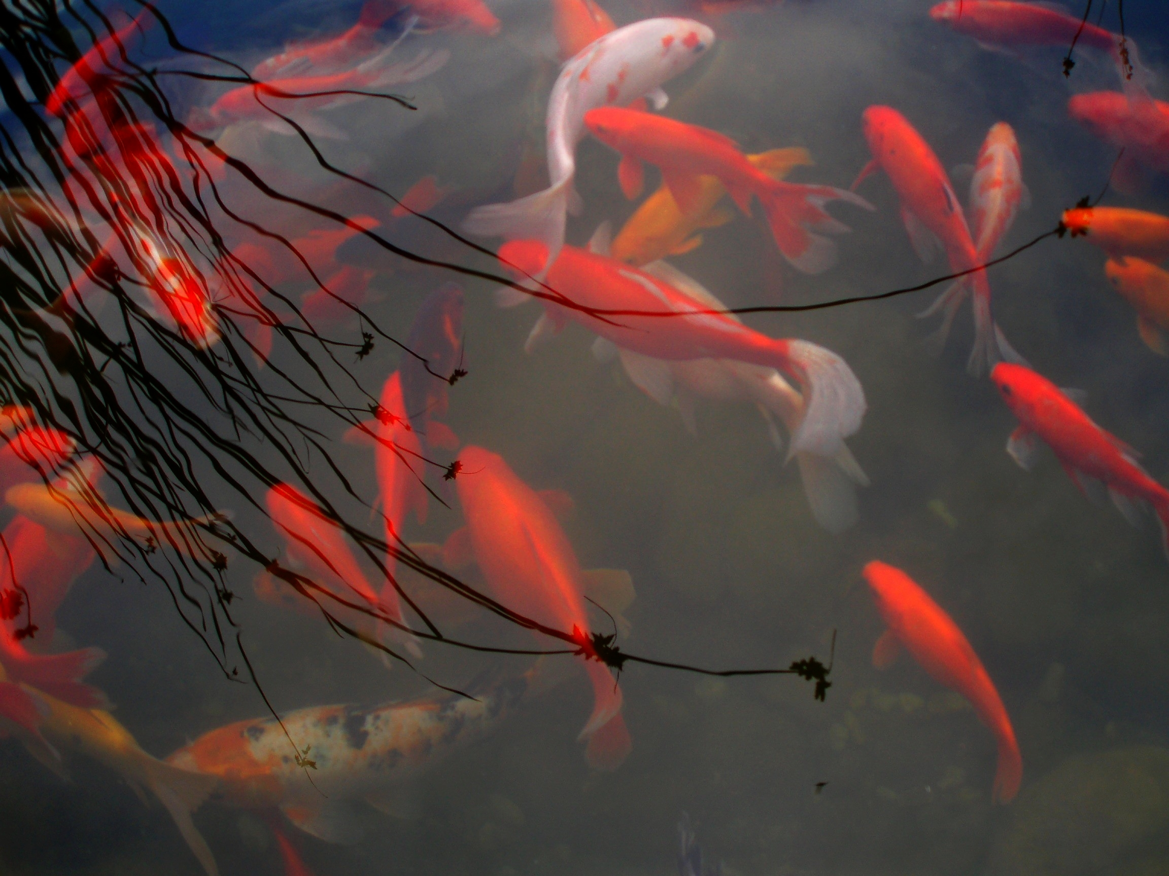 Ornamental varieties of domesticated common carp in koi pond